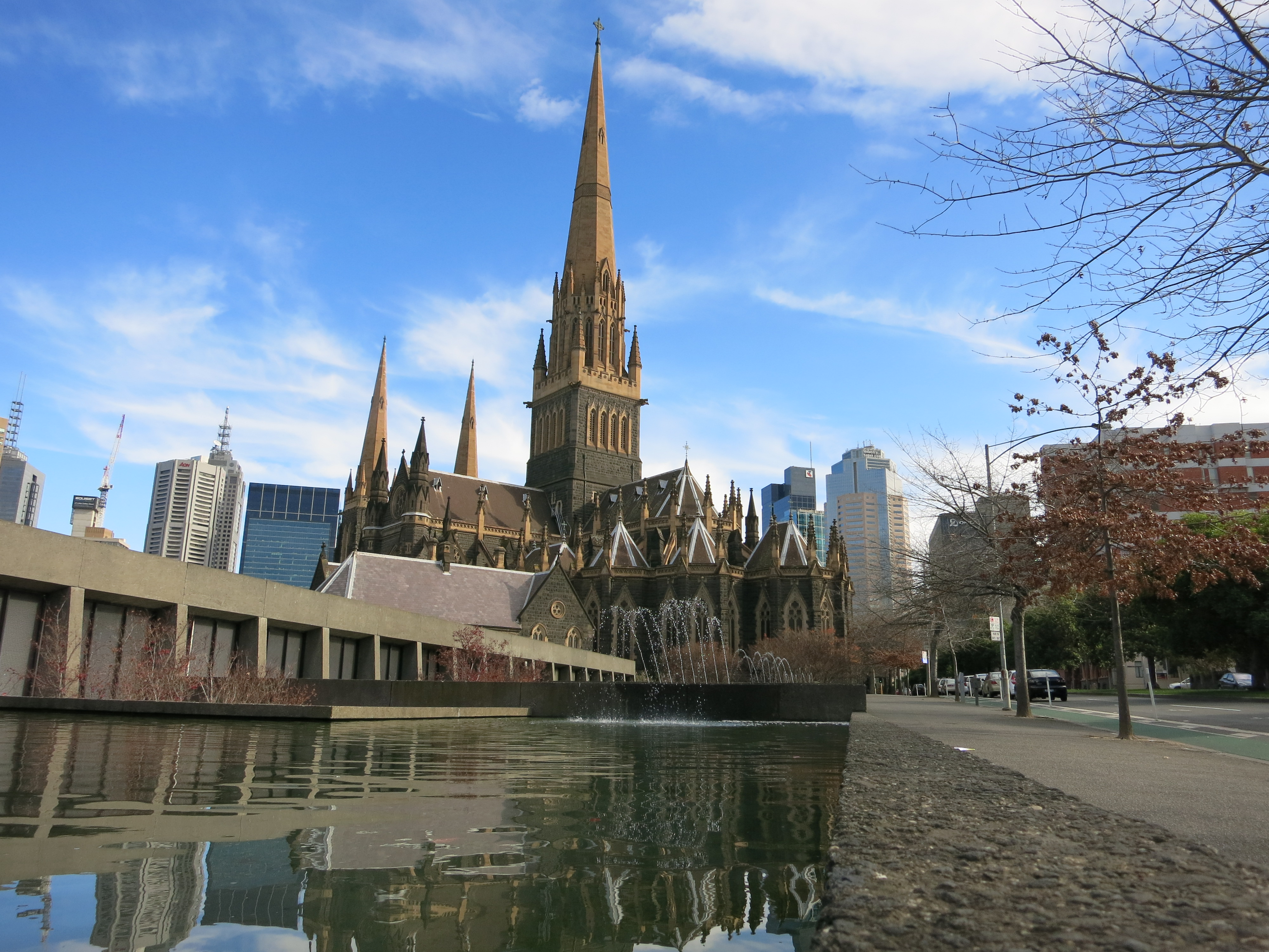 St. Patrick's Cathedral. Melbourne, Australia.